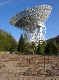 Photograph by Wolfgang Reich, MPIfR Bonn